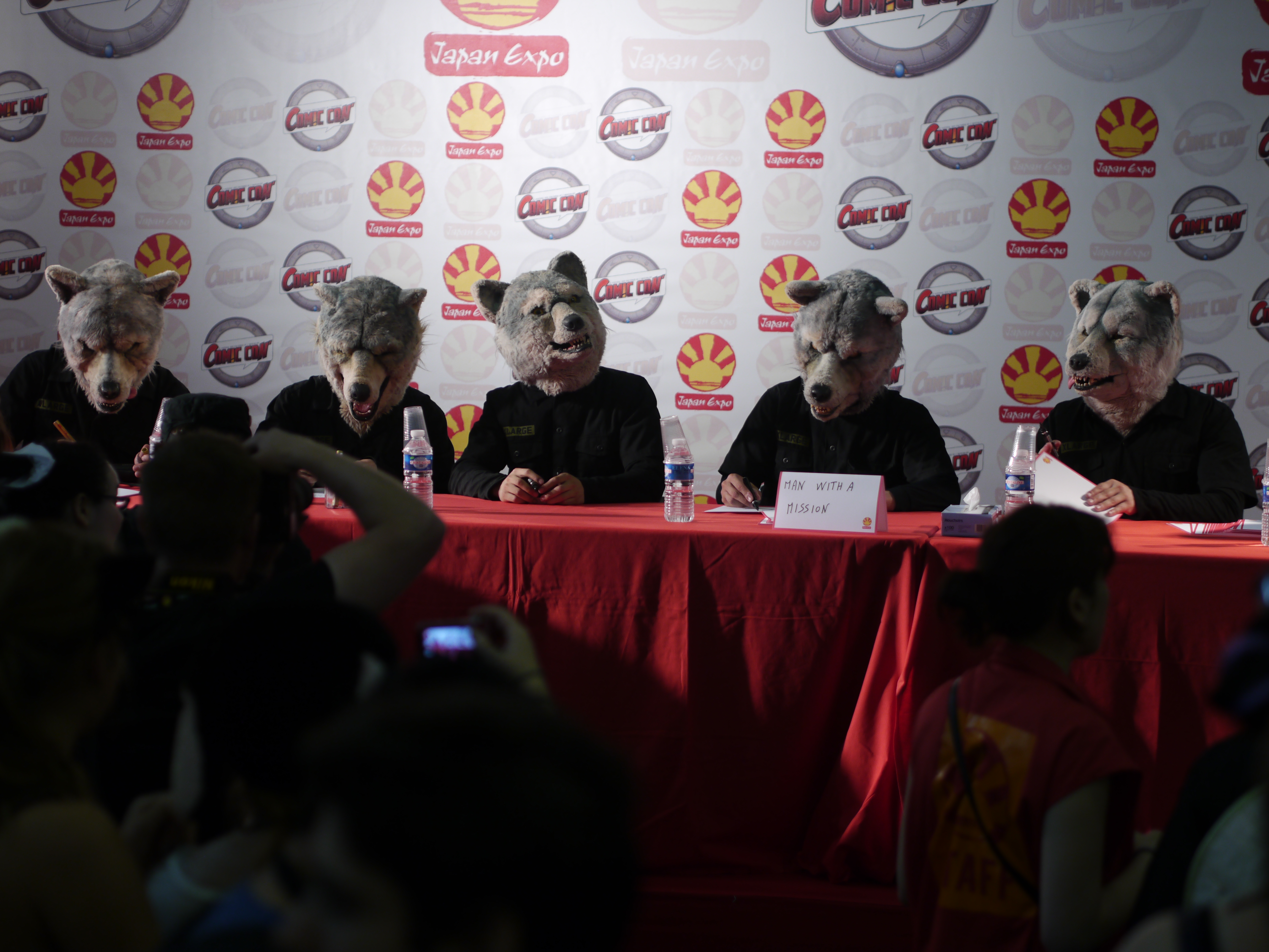 Japan Expo Festival, 13th impact